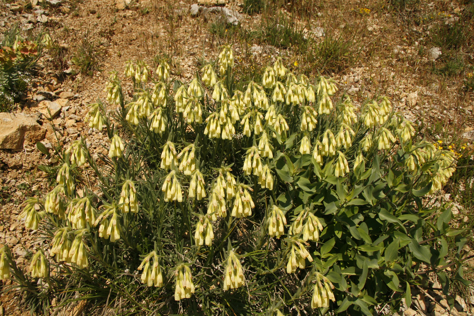 Flowers